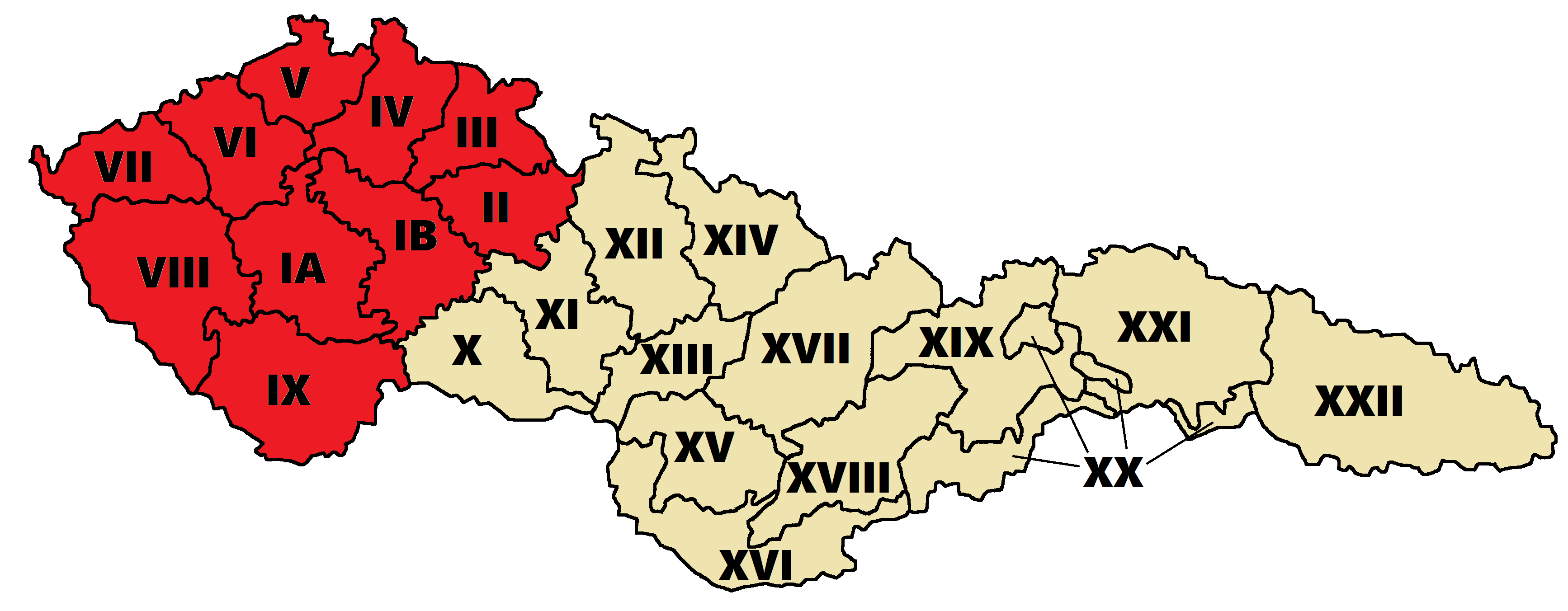 Based on